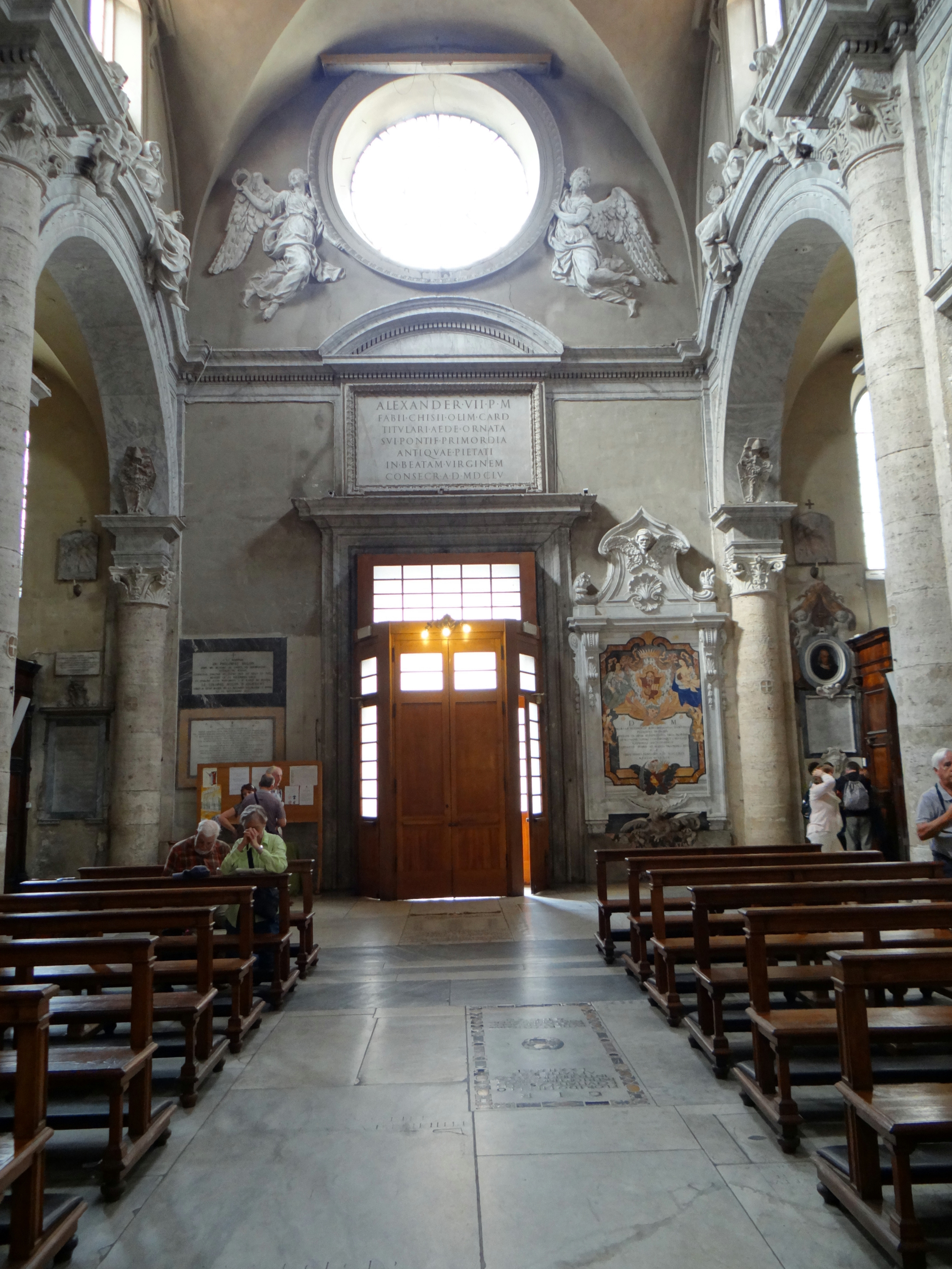 Counterfacade of the Basilica of Santa Maria del Popolo with two stucco angels by Ercole Ferrata (1655-58) and the dedicatory inscription of Pope Alexander VII.